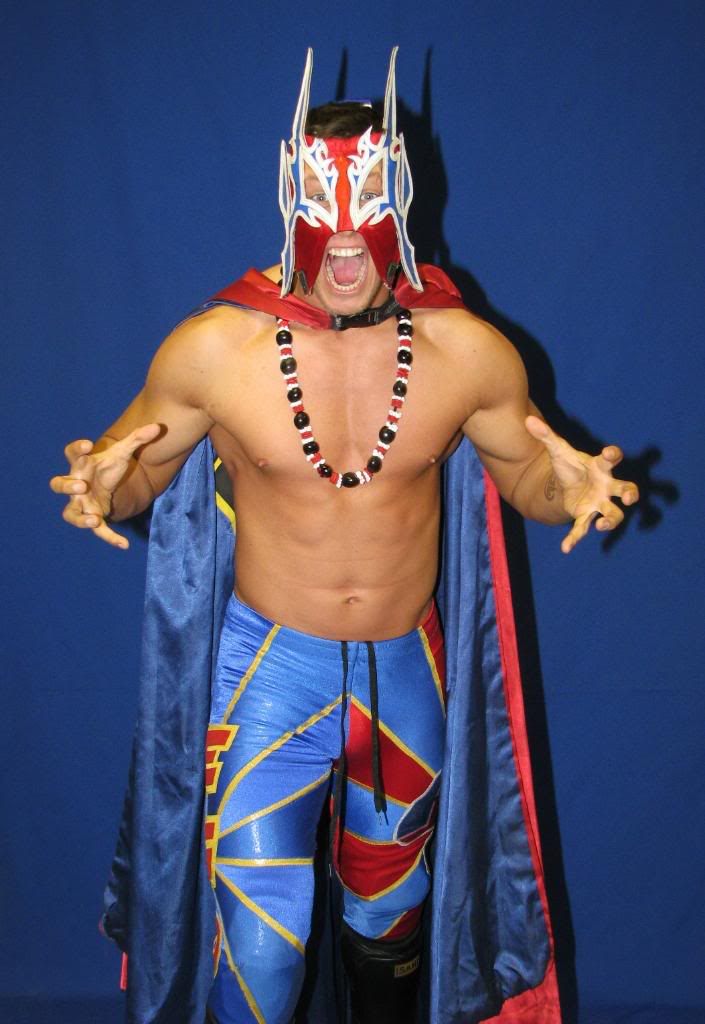 Promo photo of Egotistico Fantastico taken before a JAPW show